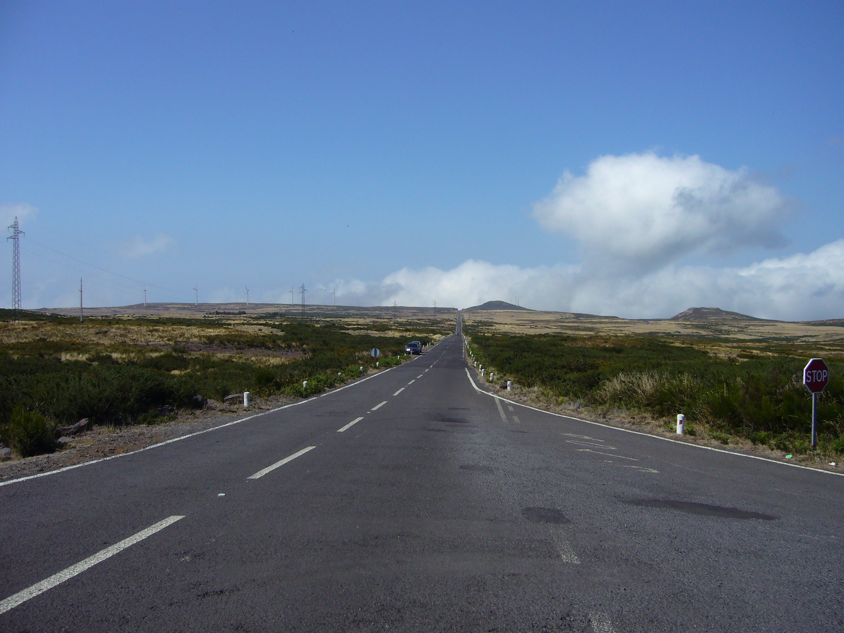 Road from Encumeada to Rabaçal (and Porto Moniz) via Paúl da Serra (Madeira)